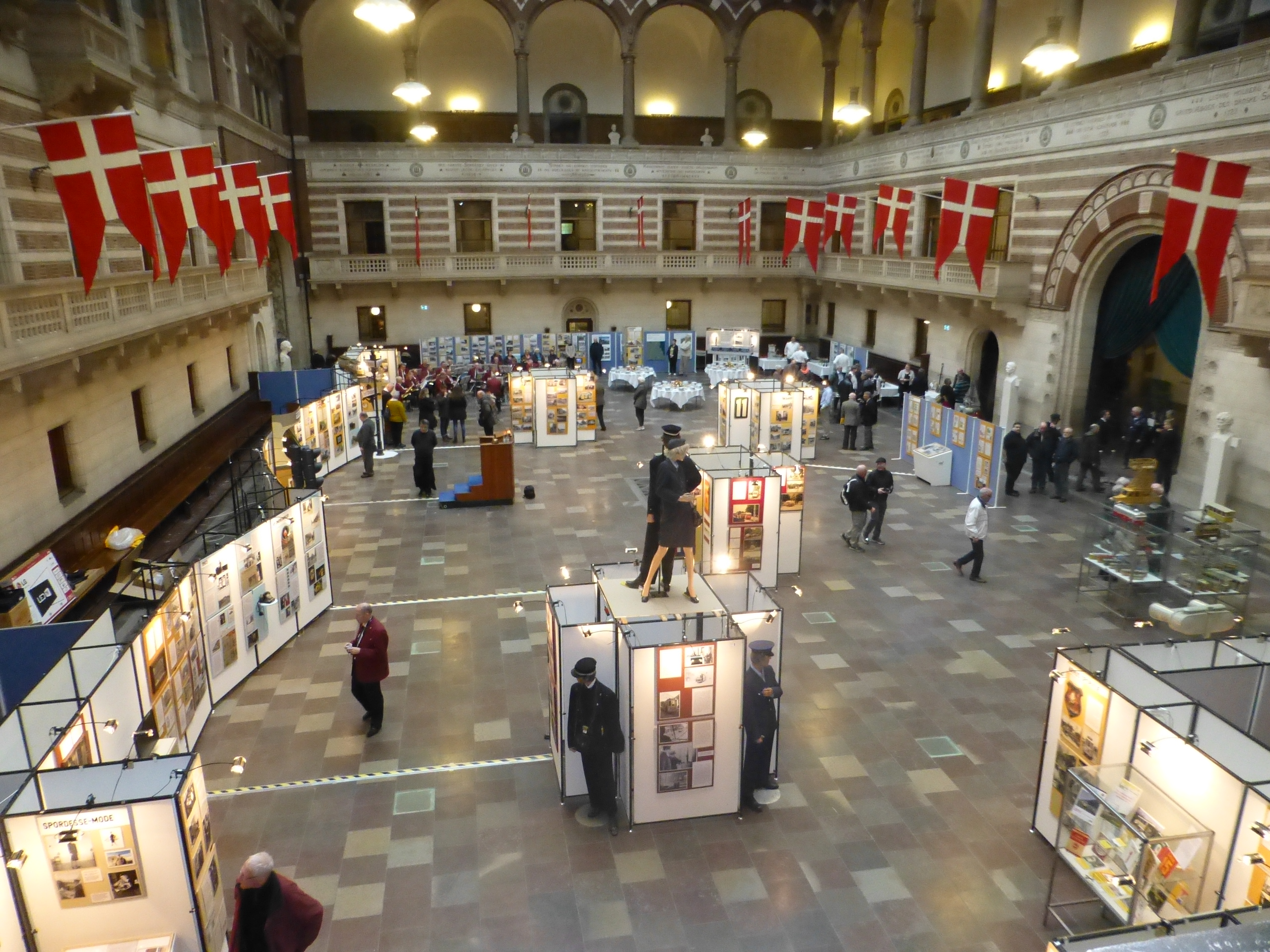 Opening day of the 50 years anniversary exhibition of the Danish tramway society, Sporvejshistorisk Selskab, in the town hall of Copenhagen. Inside the town hall before the opening.